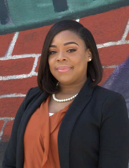 Kina Collins, Chicago-based community activist and candidate for U.S. Congress in the 2020 election, taken in May 2019 in the Austin neighborhood of Chicago. Photo by Sarah Matheson Photos.